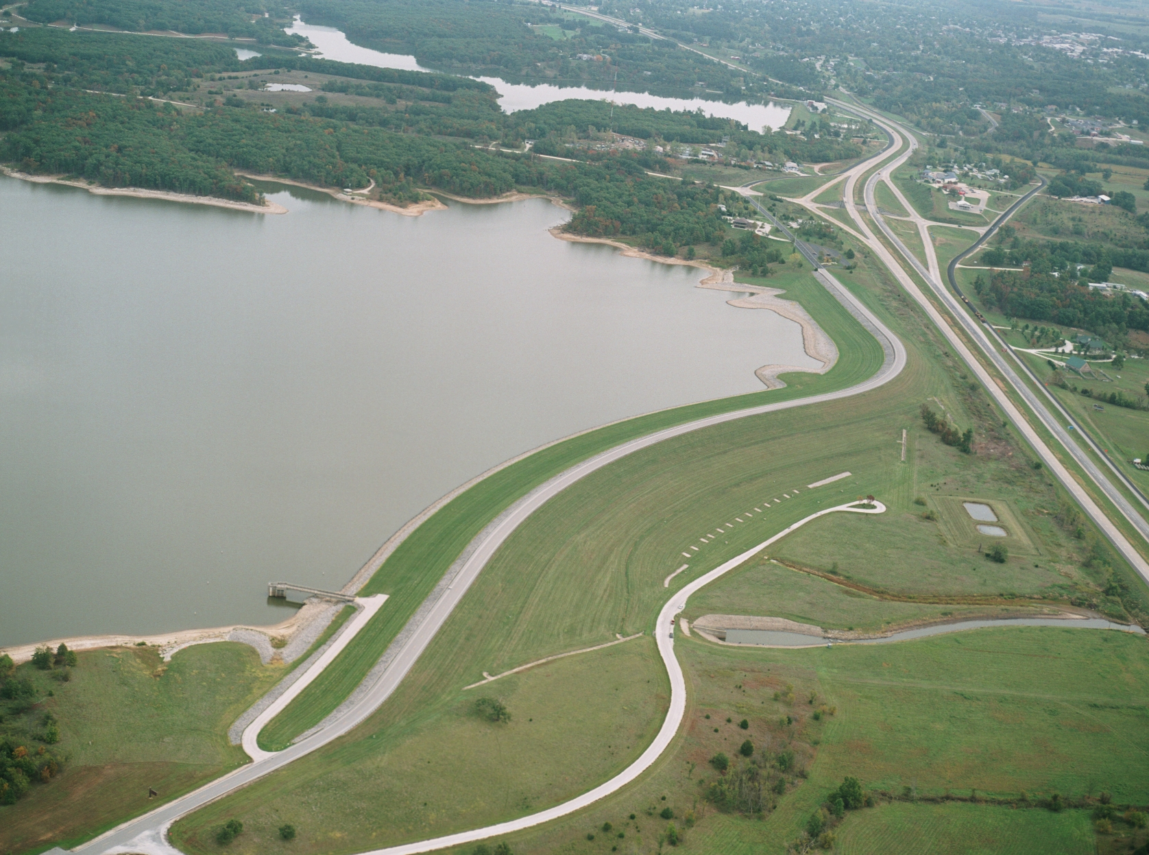 Aerial view of Long Branch Lake & Dam near Macon, Missouri. The smaller lake at the top center is the Macon city lake. The 4-lane highway along the right side is U.S. 36.